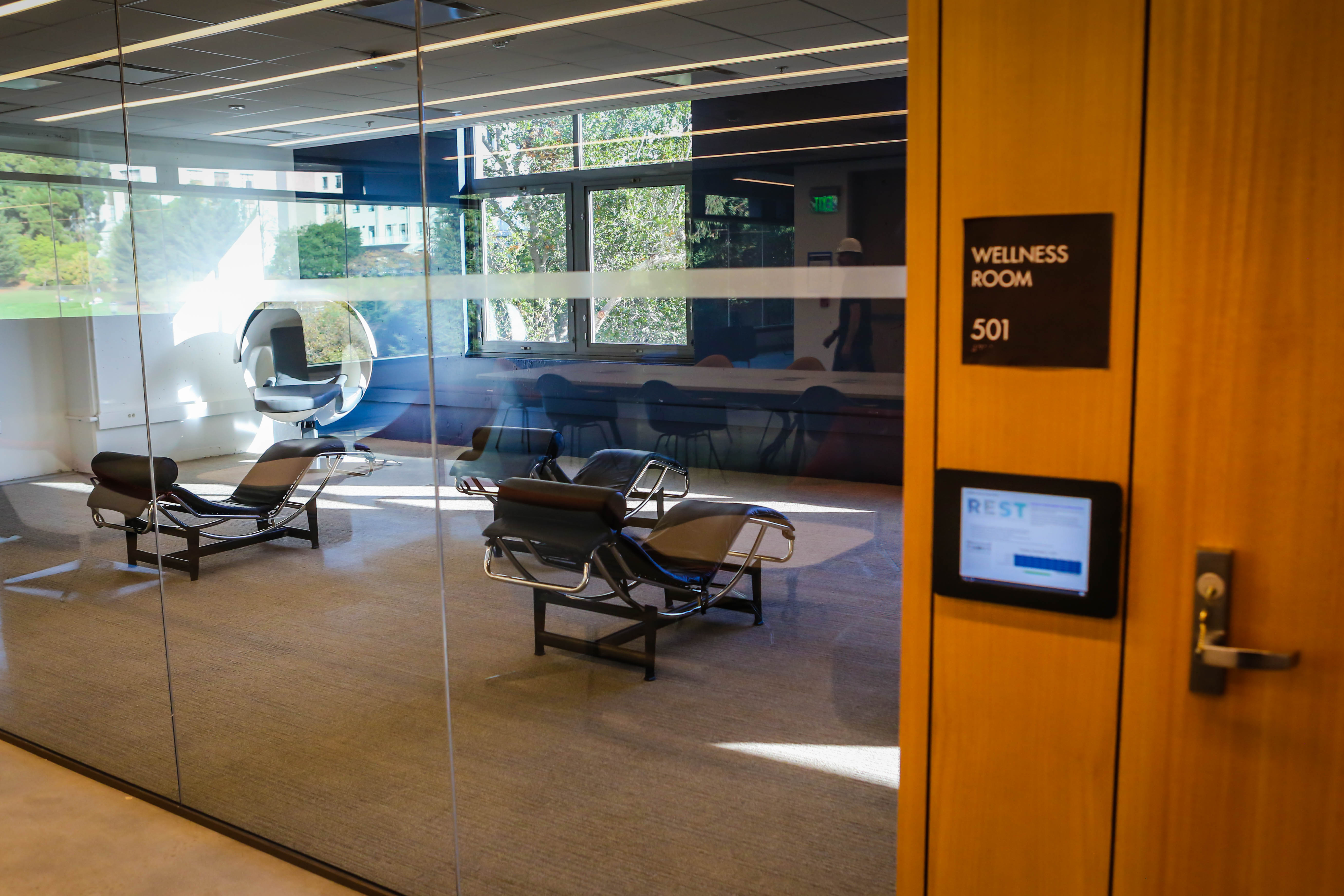 Wellness Room in Moffitt Library at UC Berkeley. A place for short rests, quiet thought, meditation or prayer and home to the ASUC sponsored REST Zone.